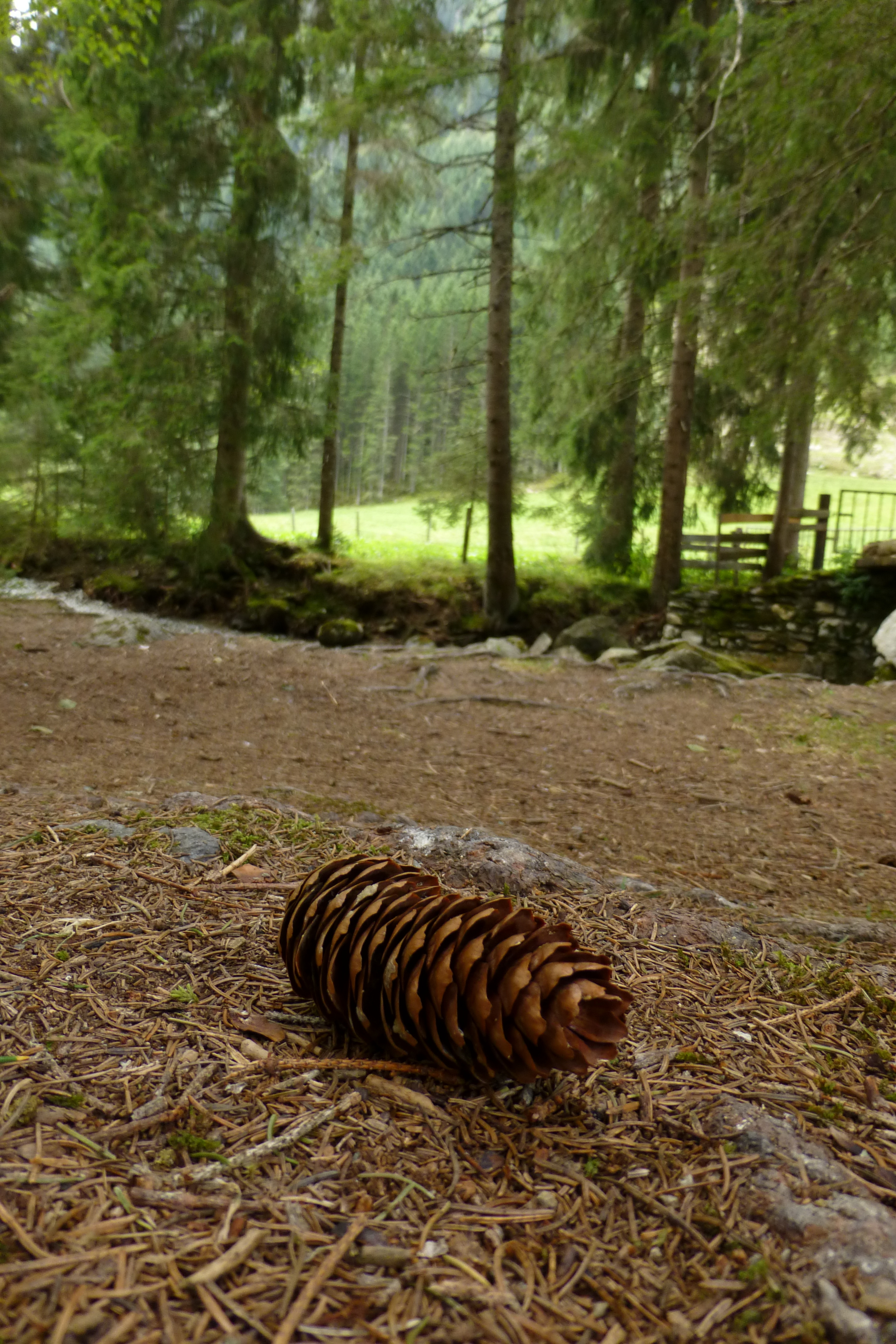 Nature of Austria - Pine cone on the ground and trees in the background